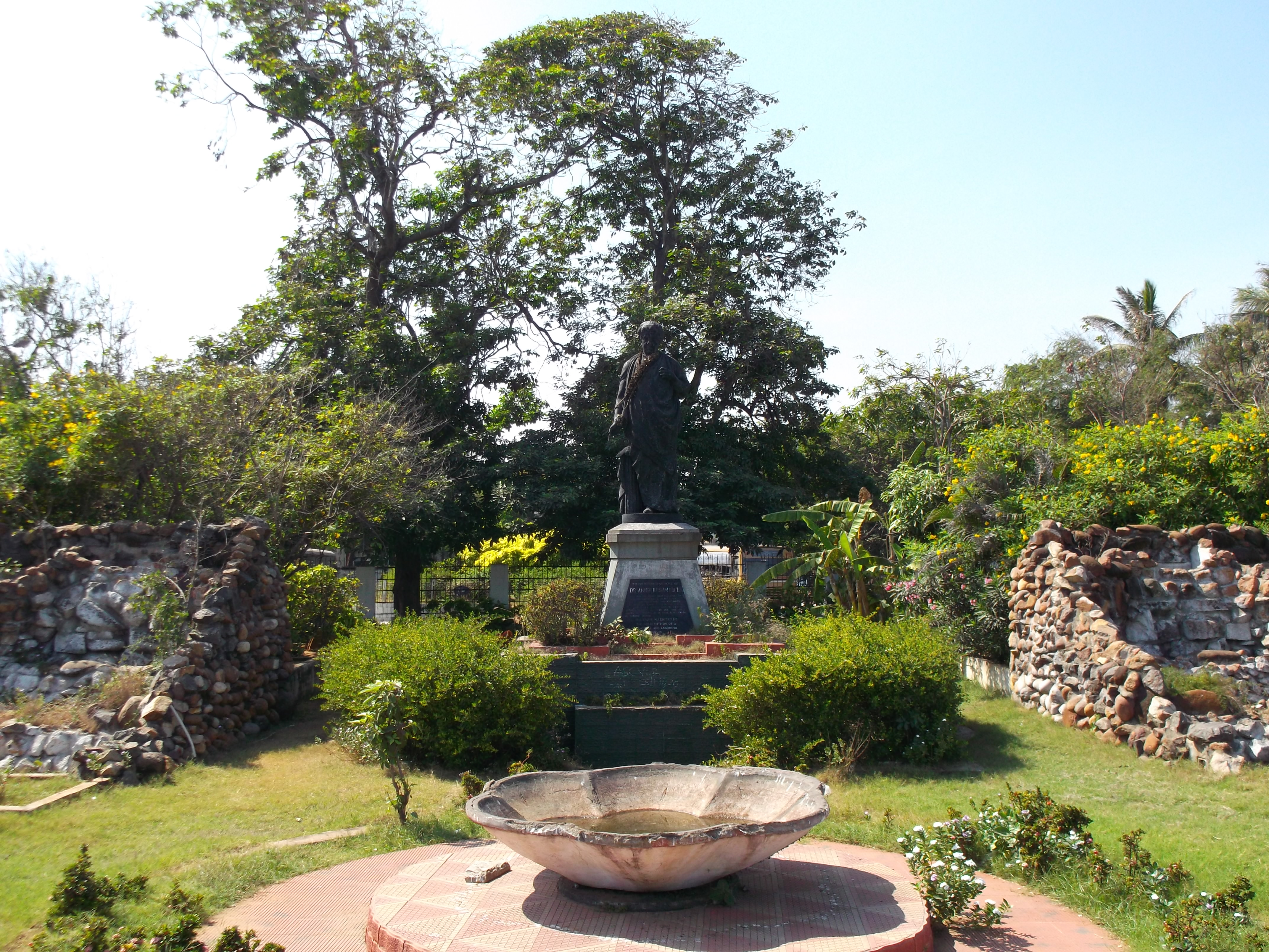 Annie Besant Park, Triplicane, Chennai, taken on 2-Feb-2013, at 3:00 pm